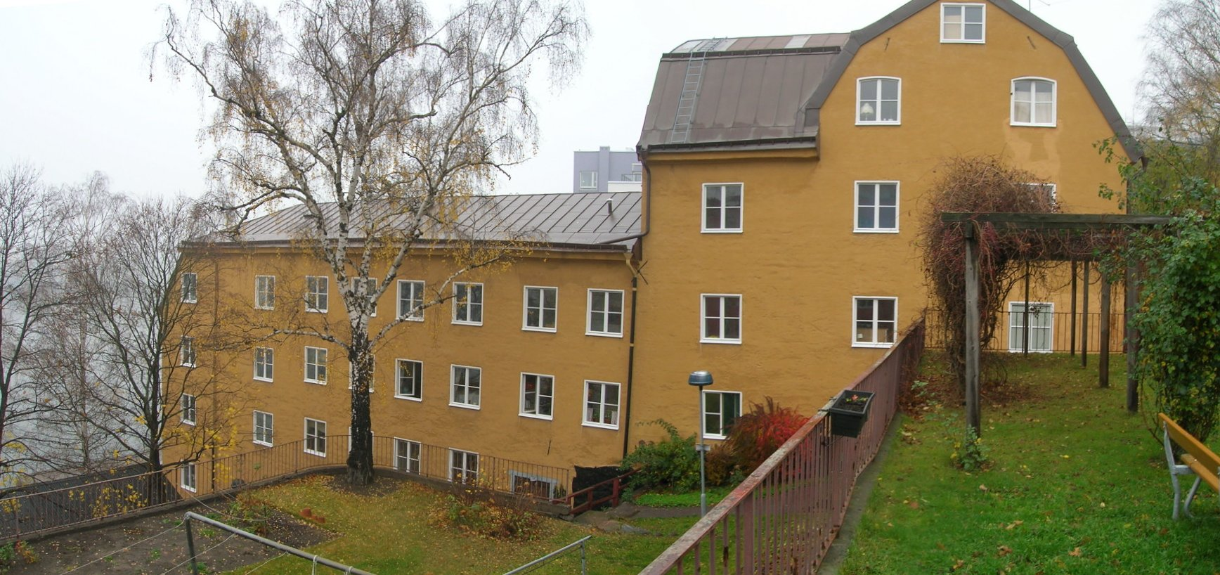 the former building of Danviks dårhus at Danviken, Nacka municipality, Stockholm county, Sweden